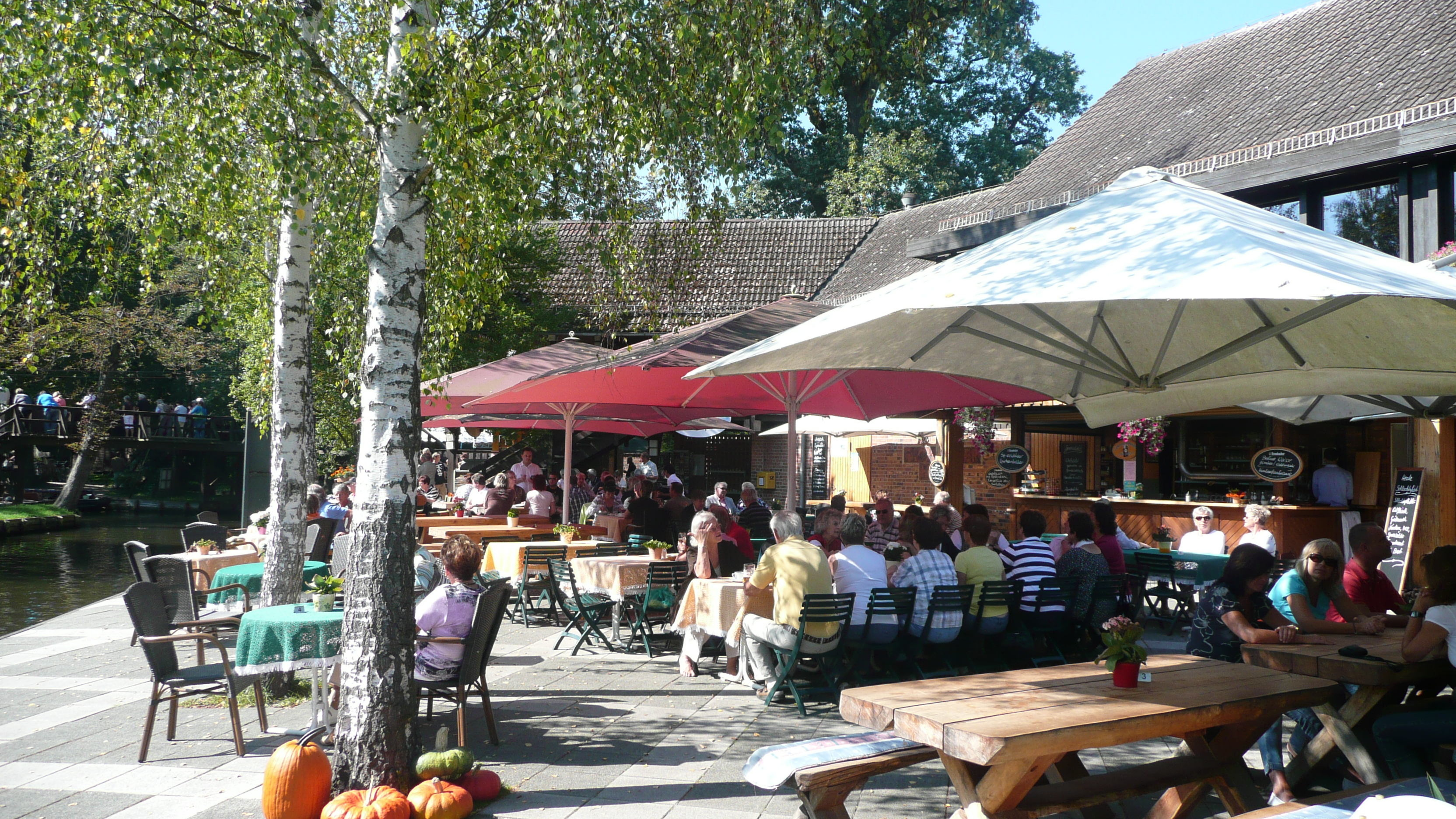 Restaurant in Lehde